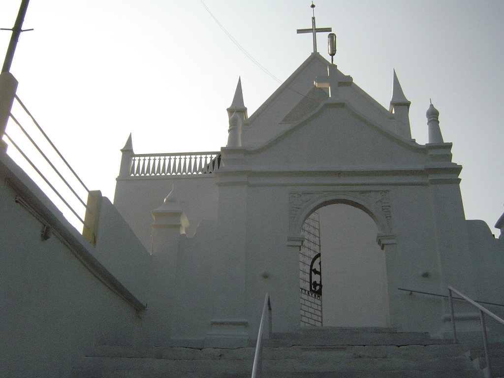 Valia Palli Church outside in Kottayam, Kerala, India selfmade by pitichinaccio, 26 Dec 2005